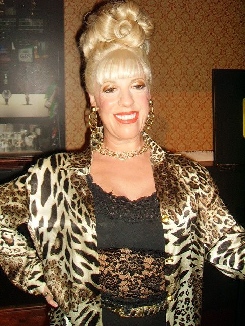 Bet Lynch behind the bar of the Rovers Return in Madame Tussauds, Blackpool